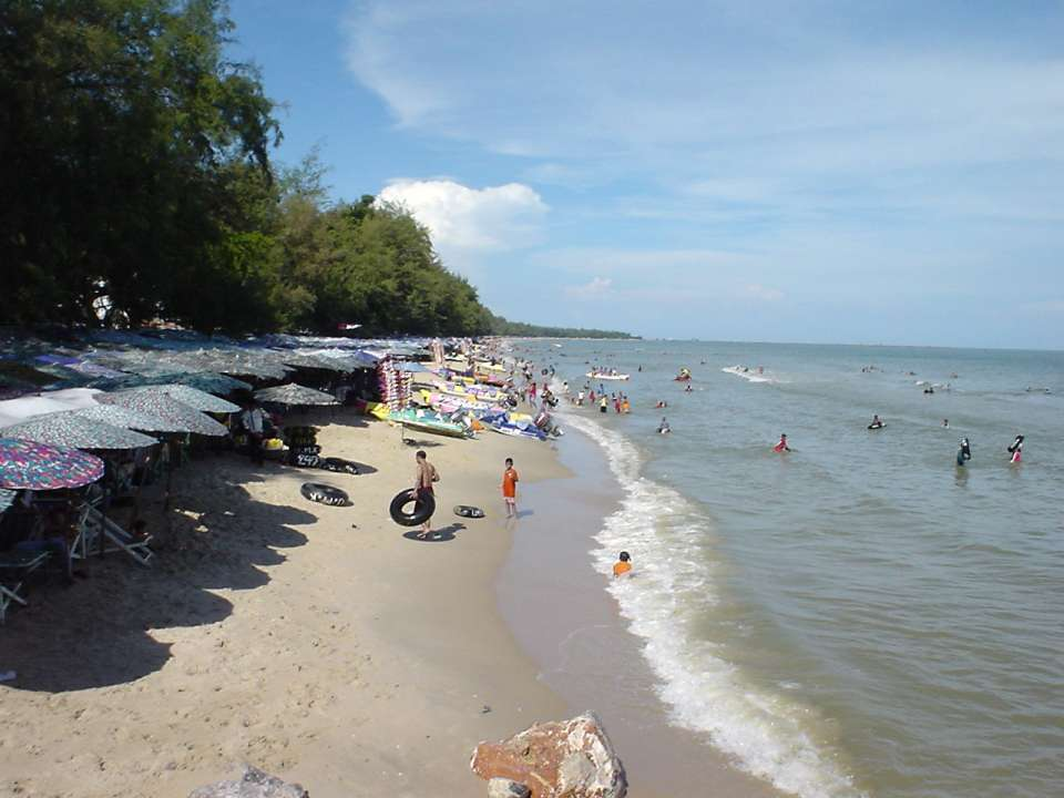 Beach at Cha-am, Phetchaburi province, Thailand Photo taken by User:Ahoerstemeier on December 7 2002.